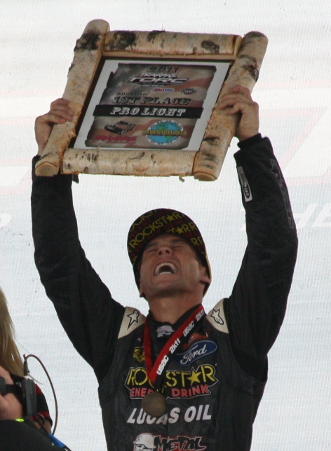 Motocross racer Brian Deegan (rider) after winning the Pro Light class off-road race at the 2011 World Championship truck races at Crandon International Off-Road Raceway.